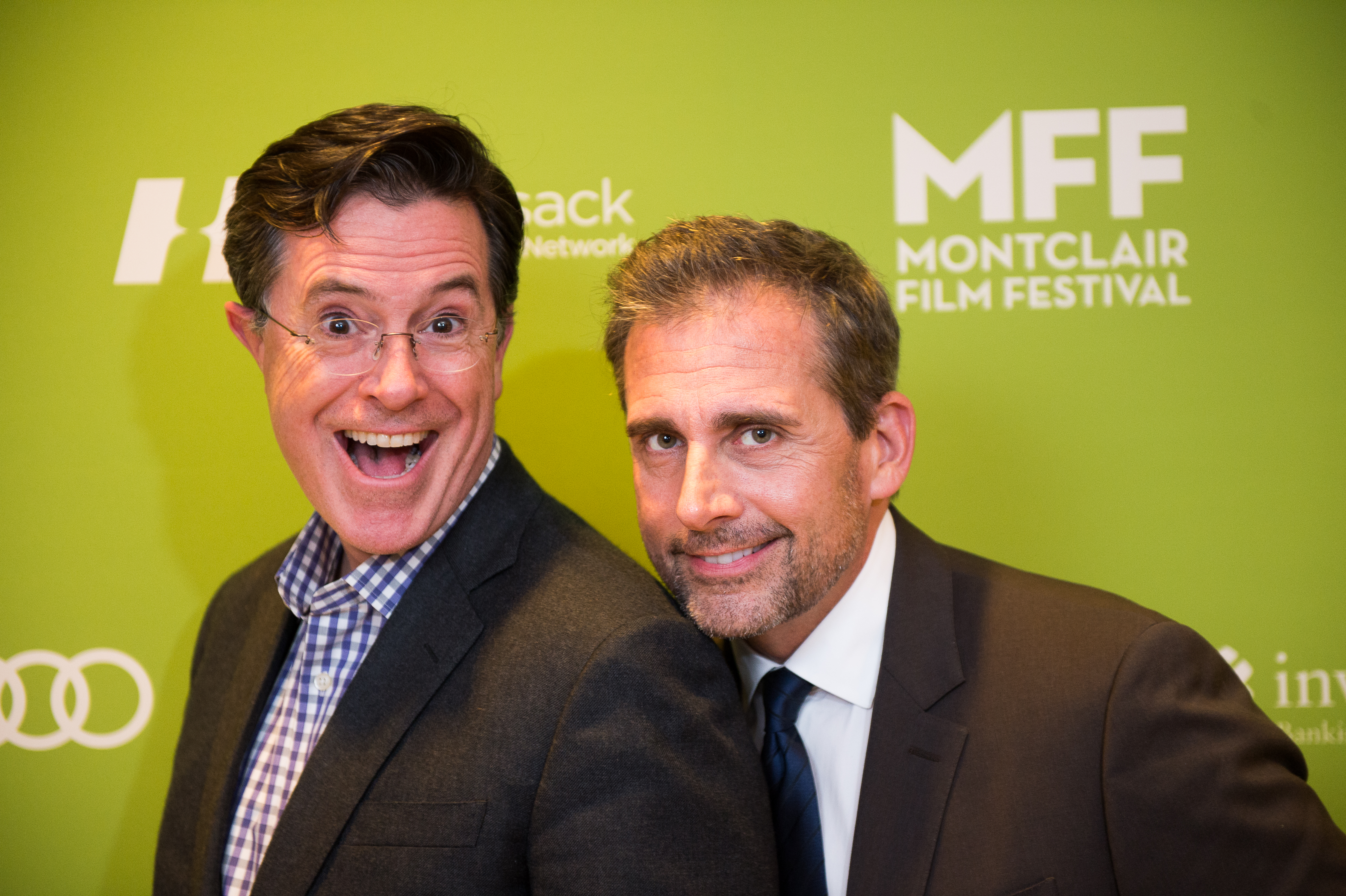 Stephen Colbert and Steve Carell at the Montclair Film Festival, November 2014